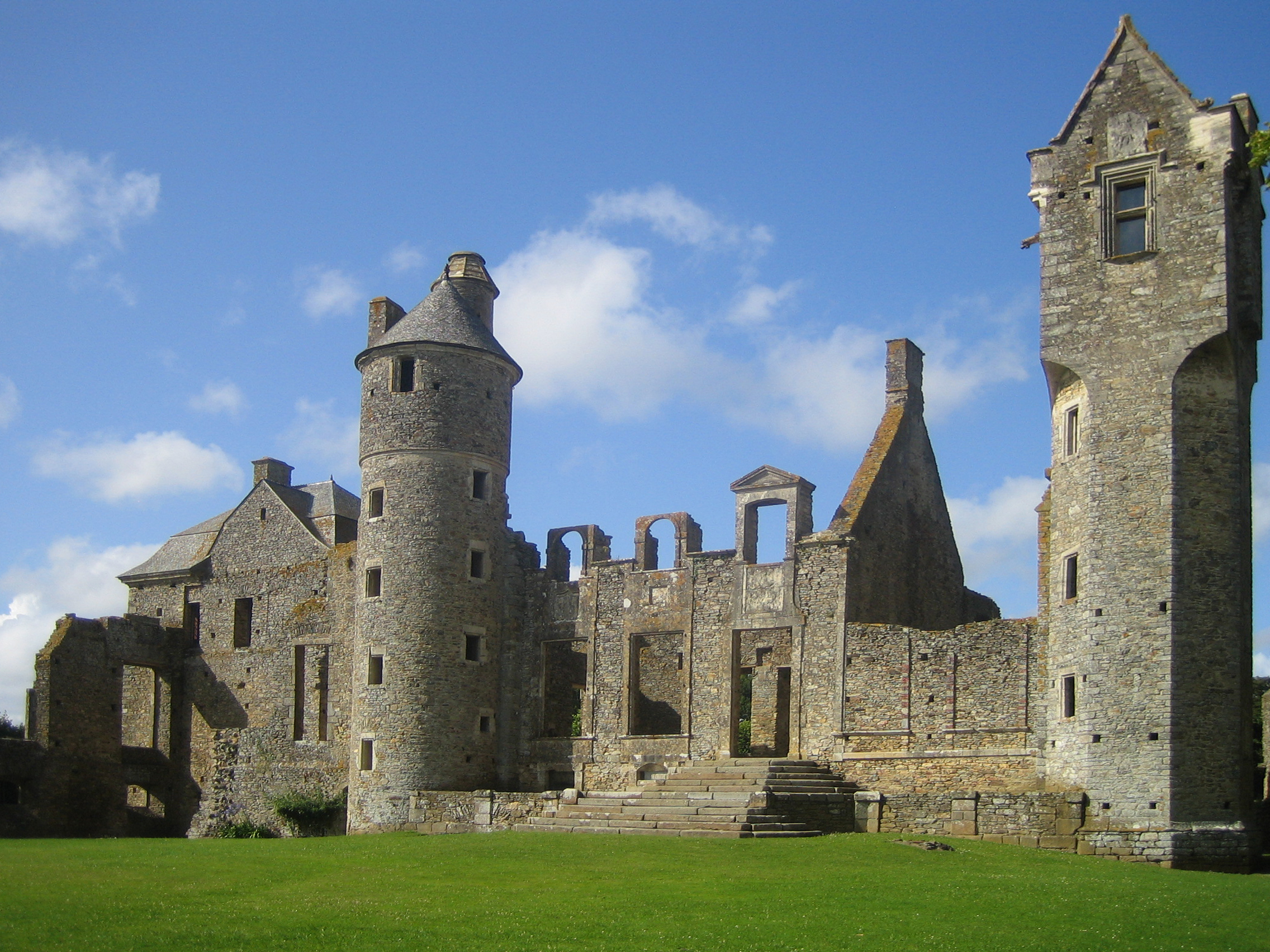 Gratot Castle, Château de Gratot, Gratot, Département de la Manche, Région Basse-Normandie, France.